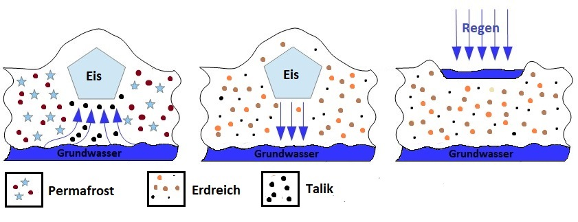 Sketch: Formation and development of a pingo of the E-Greenland-type (open type) to the Pingo-ruin (Mardelle)